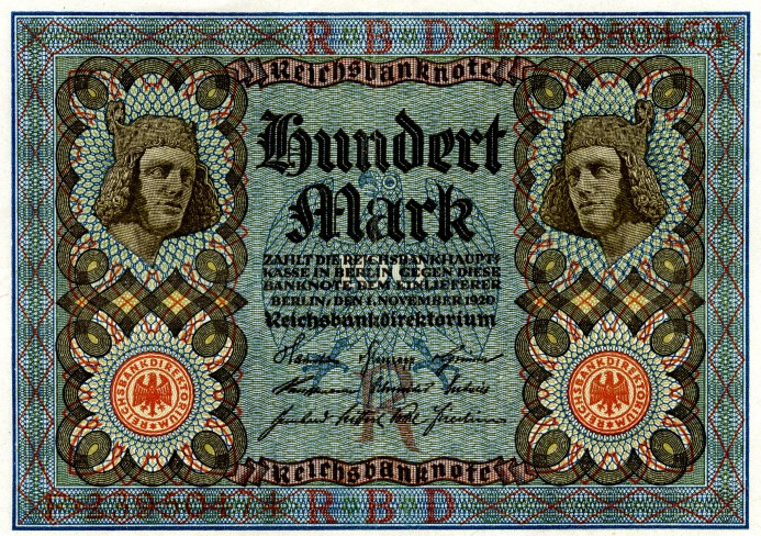 German Papiermark of the Weimar Republic, post World War I hyperinflation era (1921–24).